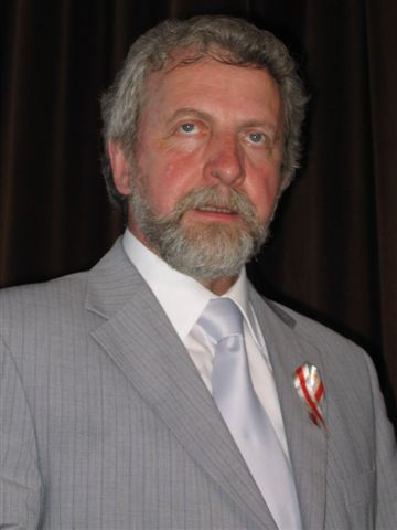 Alexander Milinkevich (b. 1947), Belarusian politician